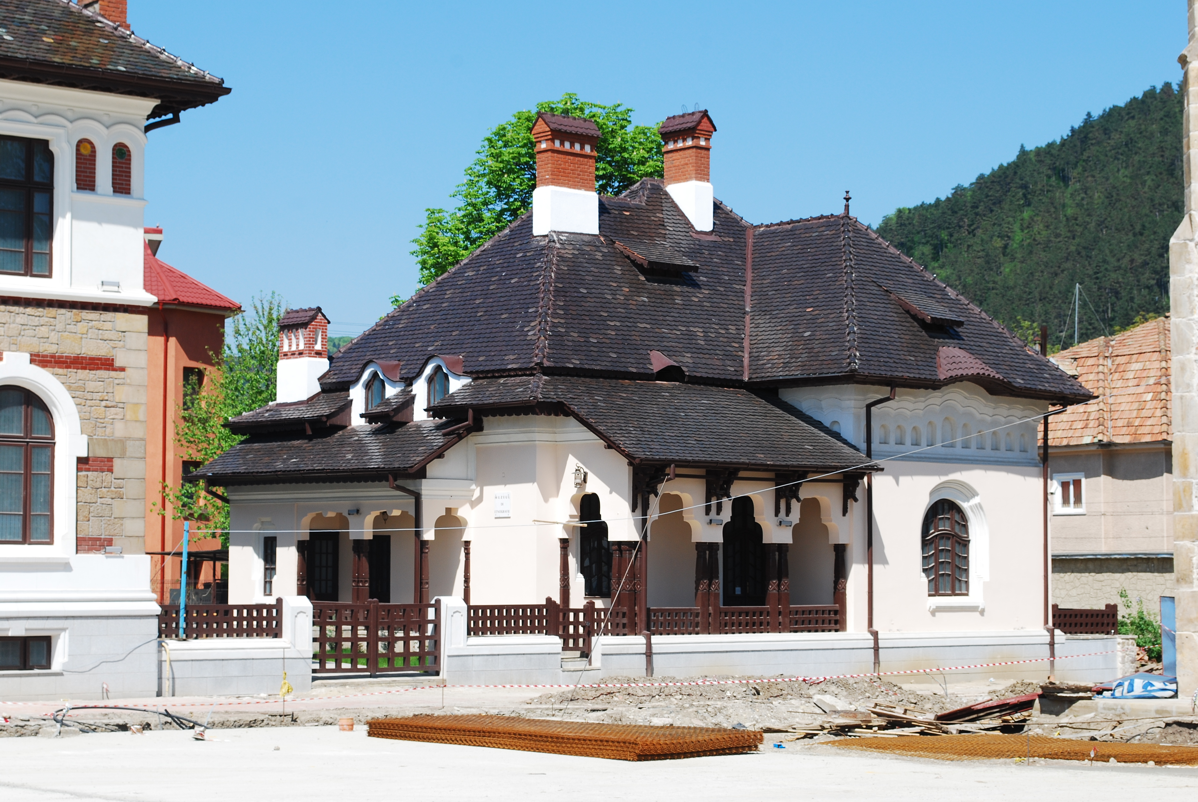 Ethnography museum in Piatra Neamț, RomaniaRomână: Muzeul de etnografie din Piatra Neamț, România